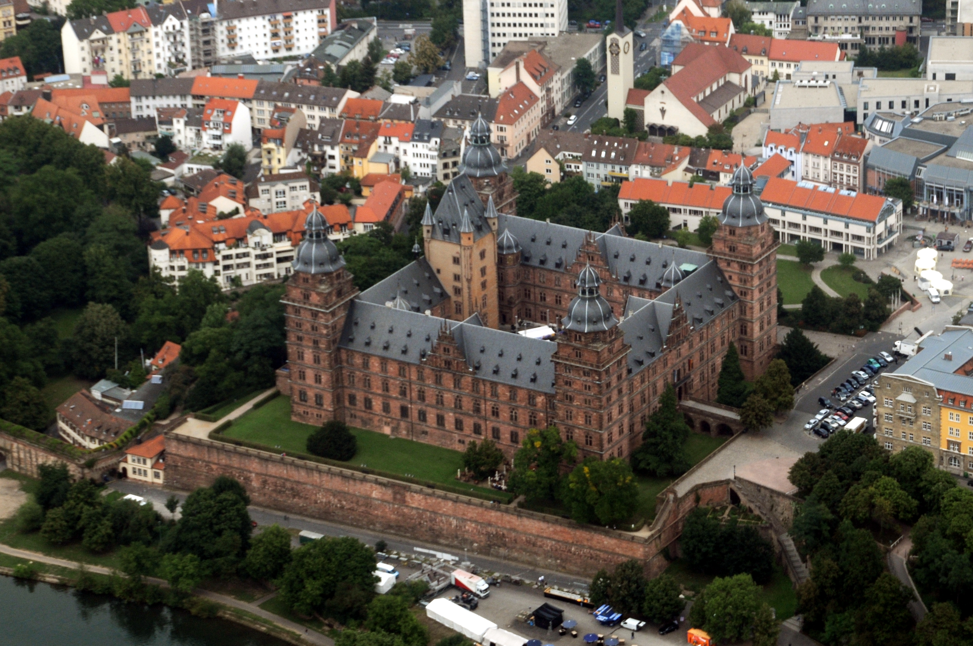 Aschaffenburg, Bavaria, Germany, aerial photograph